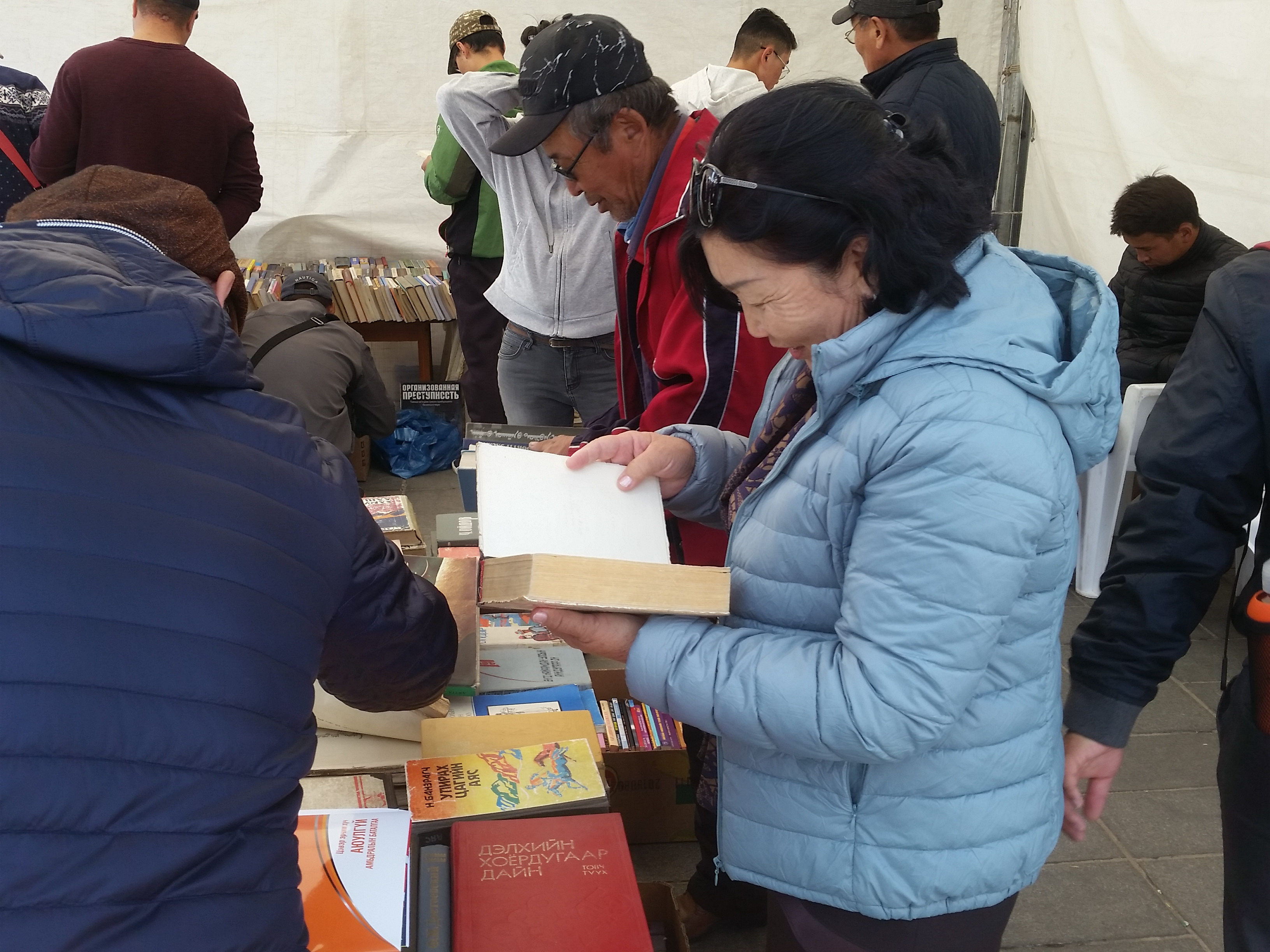 Ulaanbaatar book fair 2019 - 3